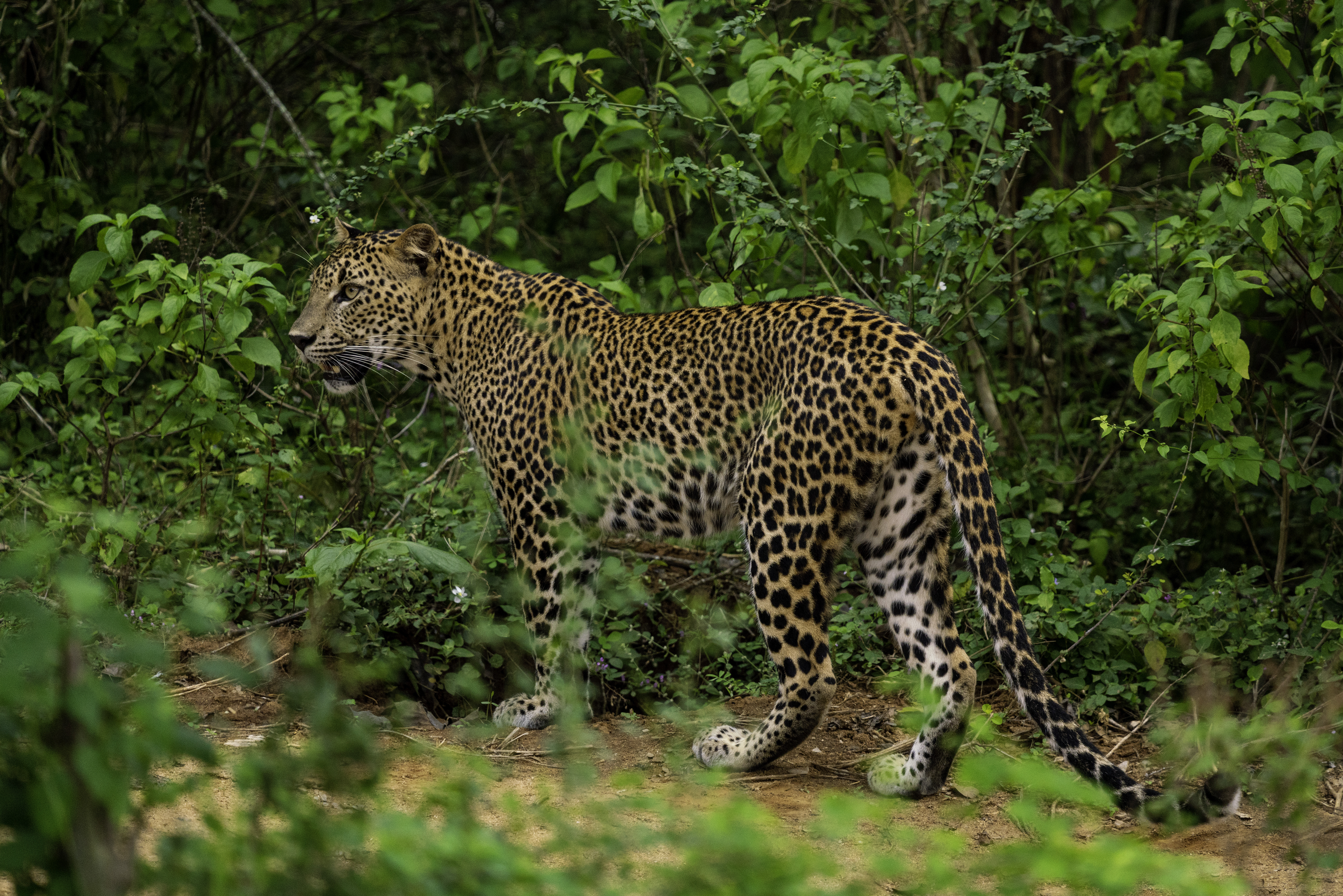 Juvenile Sri Lankan Leopard (female) in Yala National Park, Sri Lanka